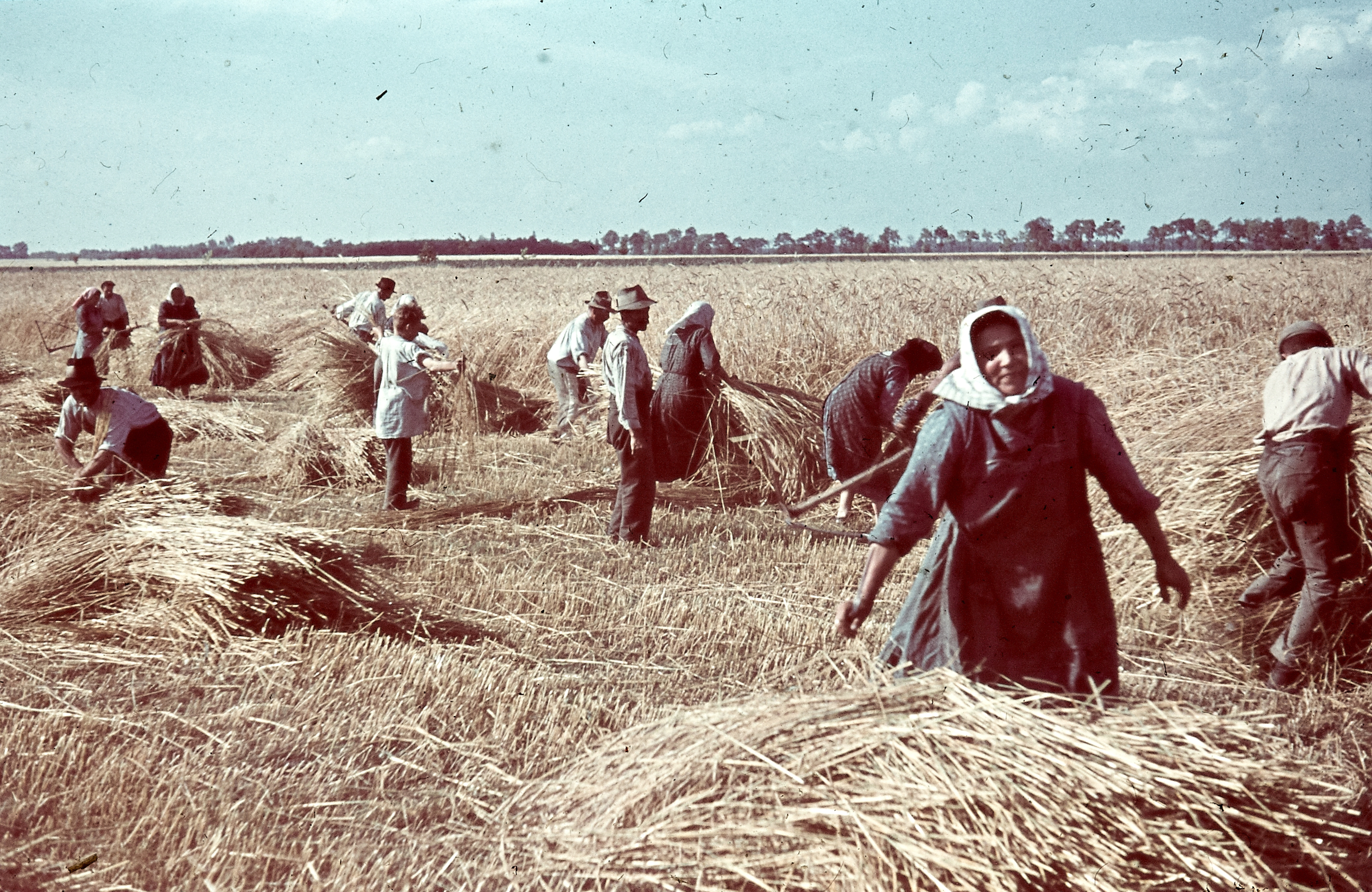 Hungary? Tags: agriculture, colorful, harvest